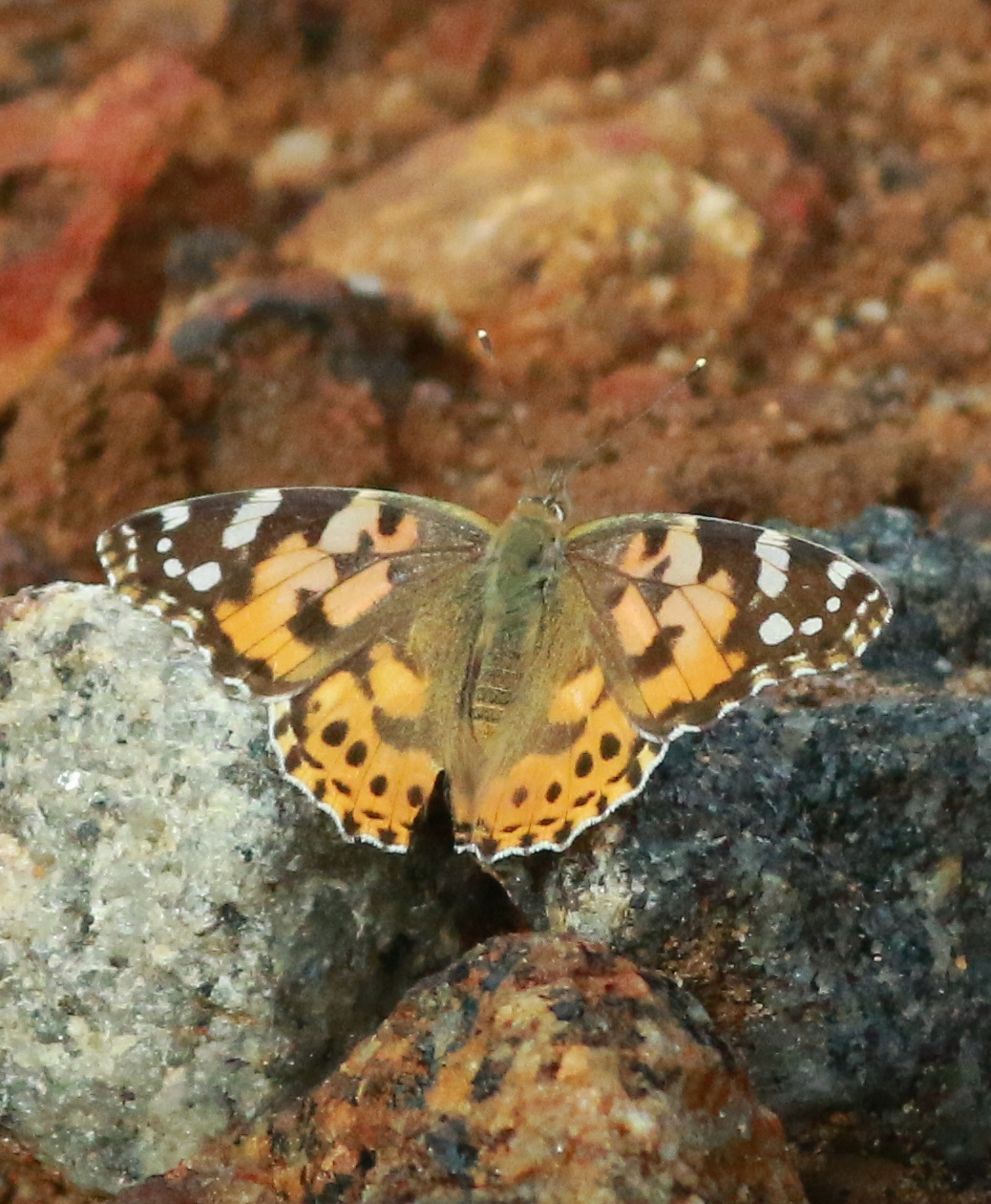 Painted lady